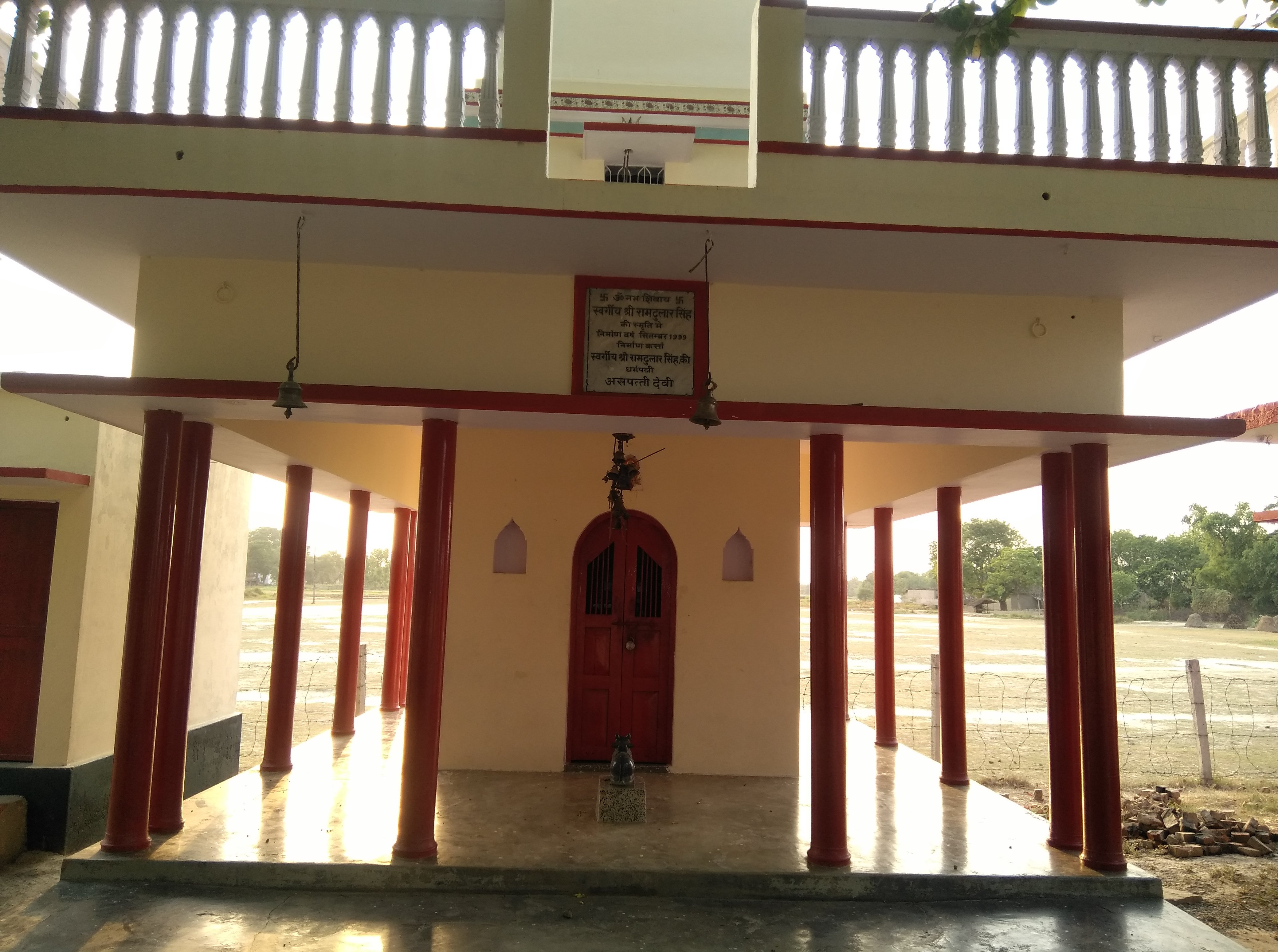 It is a very famous temple in the local area.